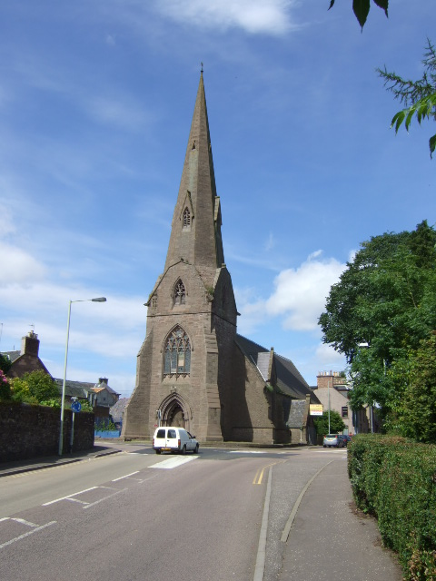 A Brechin church